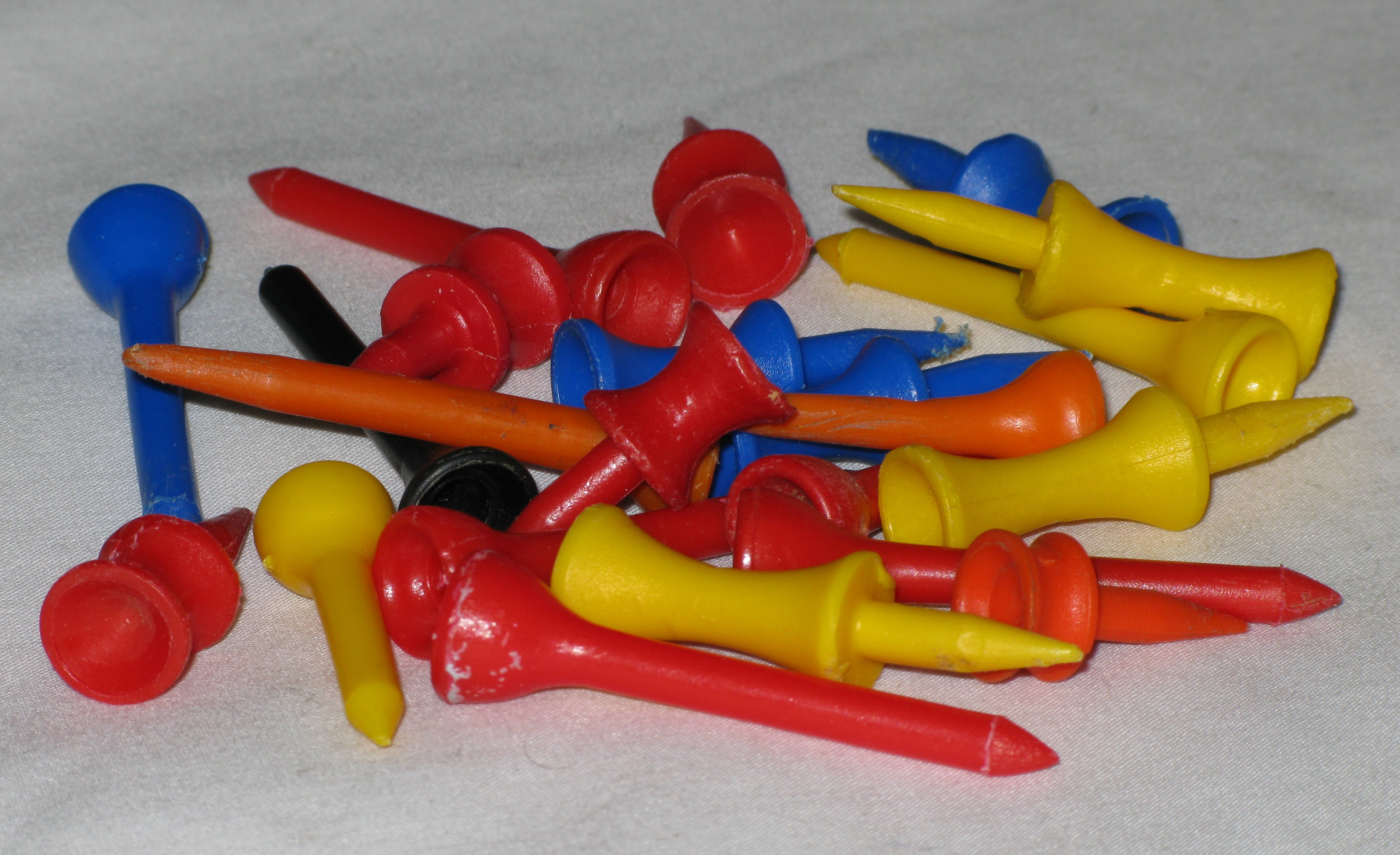 a section of plastic golf tees